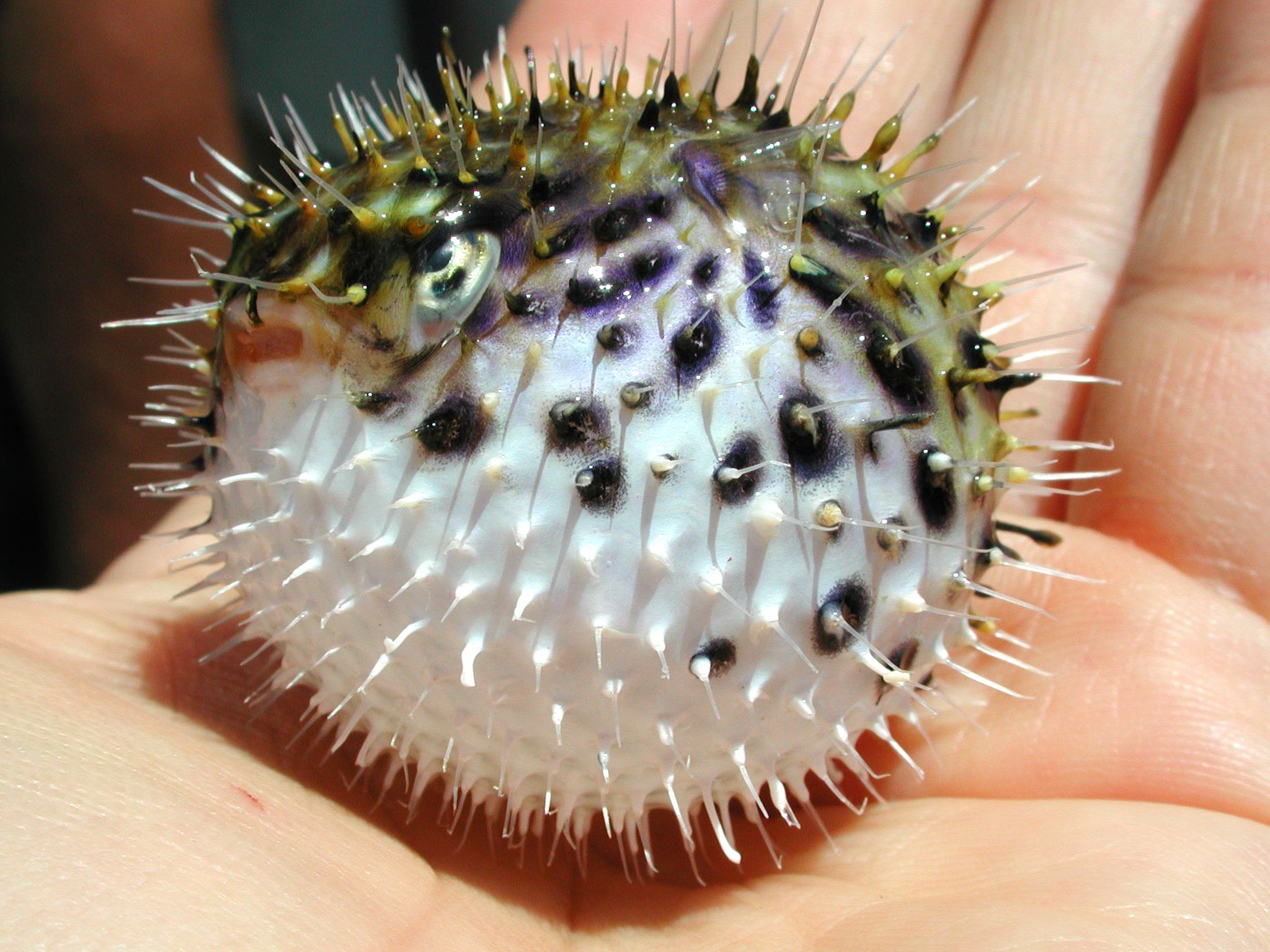 This tiny spiny puffer fish was caught in a neuston net tow. Many juvenile fish live in clumps of sargassum weed, a type of marine algae that lives its whole life floating at the oceans surface. South Atlantic Bight, Southeast United States.